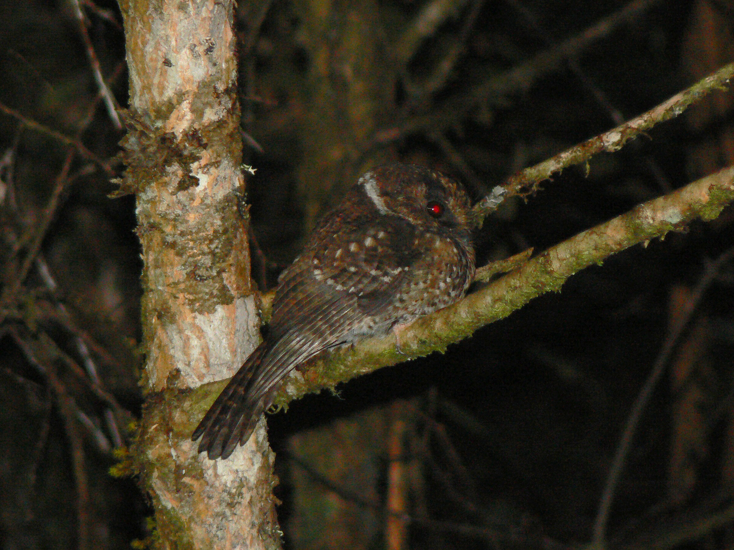 Mountain Owlet-Nightjar